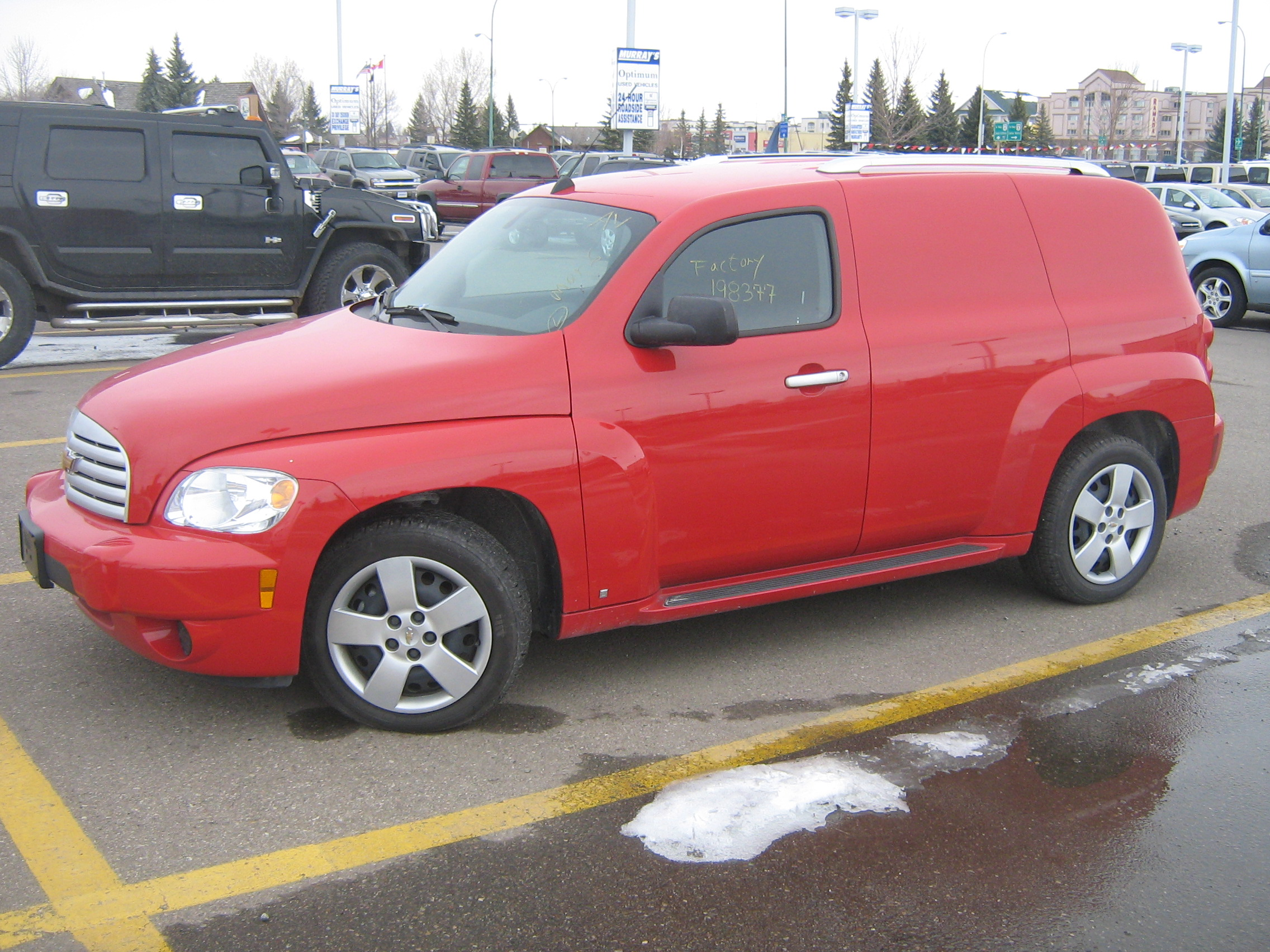 First Chevrolet HHR Panel Van I've seen. Rather neat.